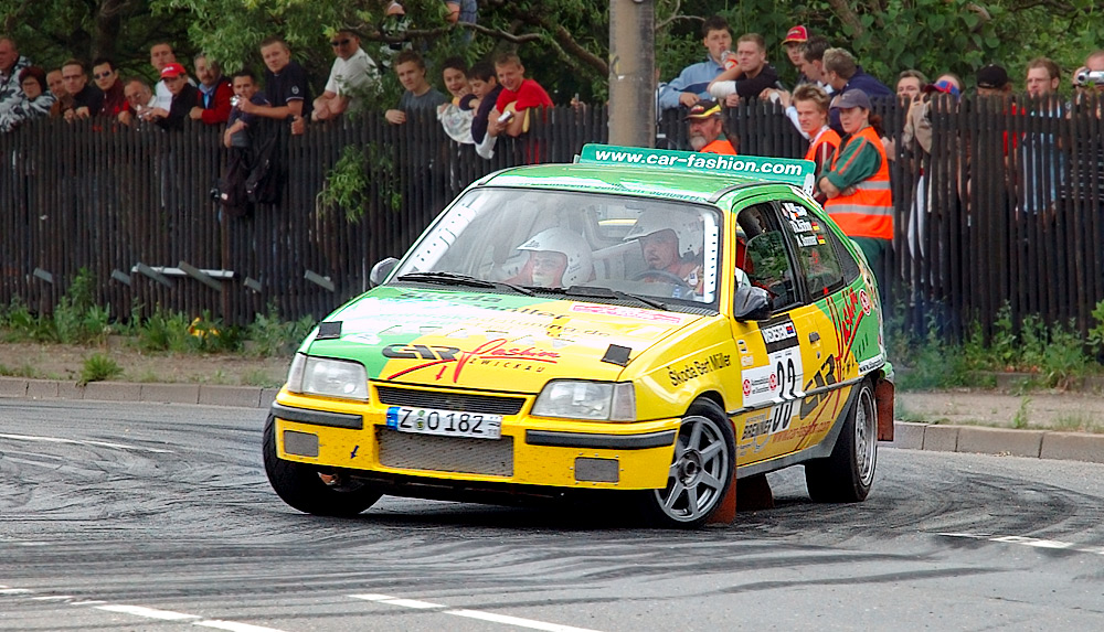 This image shows a Opel Kadett GSI 16V. The driver is Thomas Böhm, the co-driver is André Sommer. This photo has been taken during the Saxony rally racing 2005 in Zwickau (Germany).